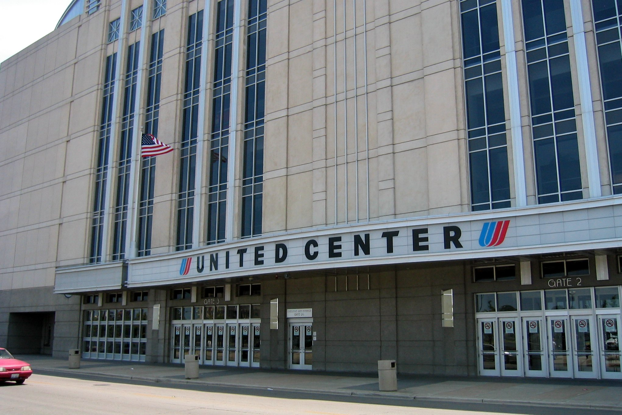 United_Center in Chicago, home of the Chicago Blackhawks and Chicago Bulls